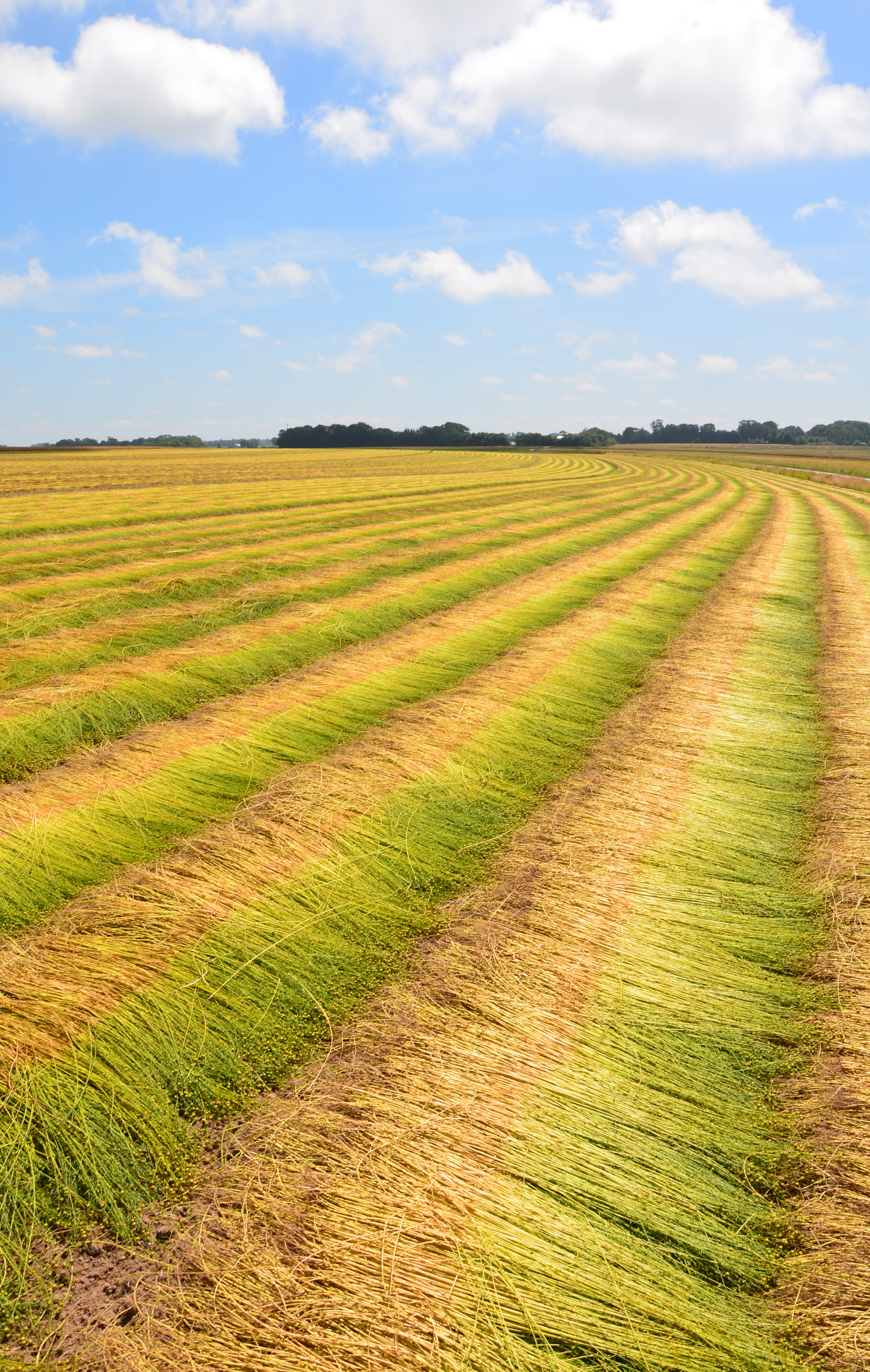 Cut flax field near Saint-Pierre-en-Port, in Seine-Maritime (Haute-Normandie, France).